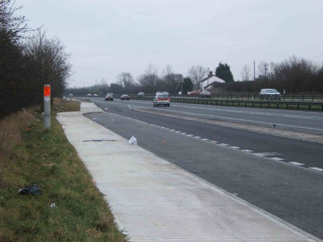 A12 Lay-by. TL9022 has two main features the A12 and the London to Norwich railway. There is little else of interest with public access. The lay-by in the shot has been recently modified with a kerb to separate the road and the lay-by, in order to improve safety. The photo was taken looking towards Colchester.